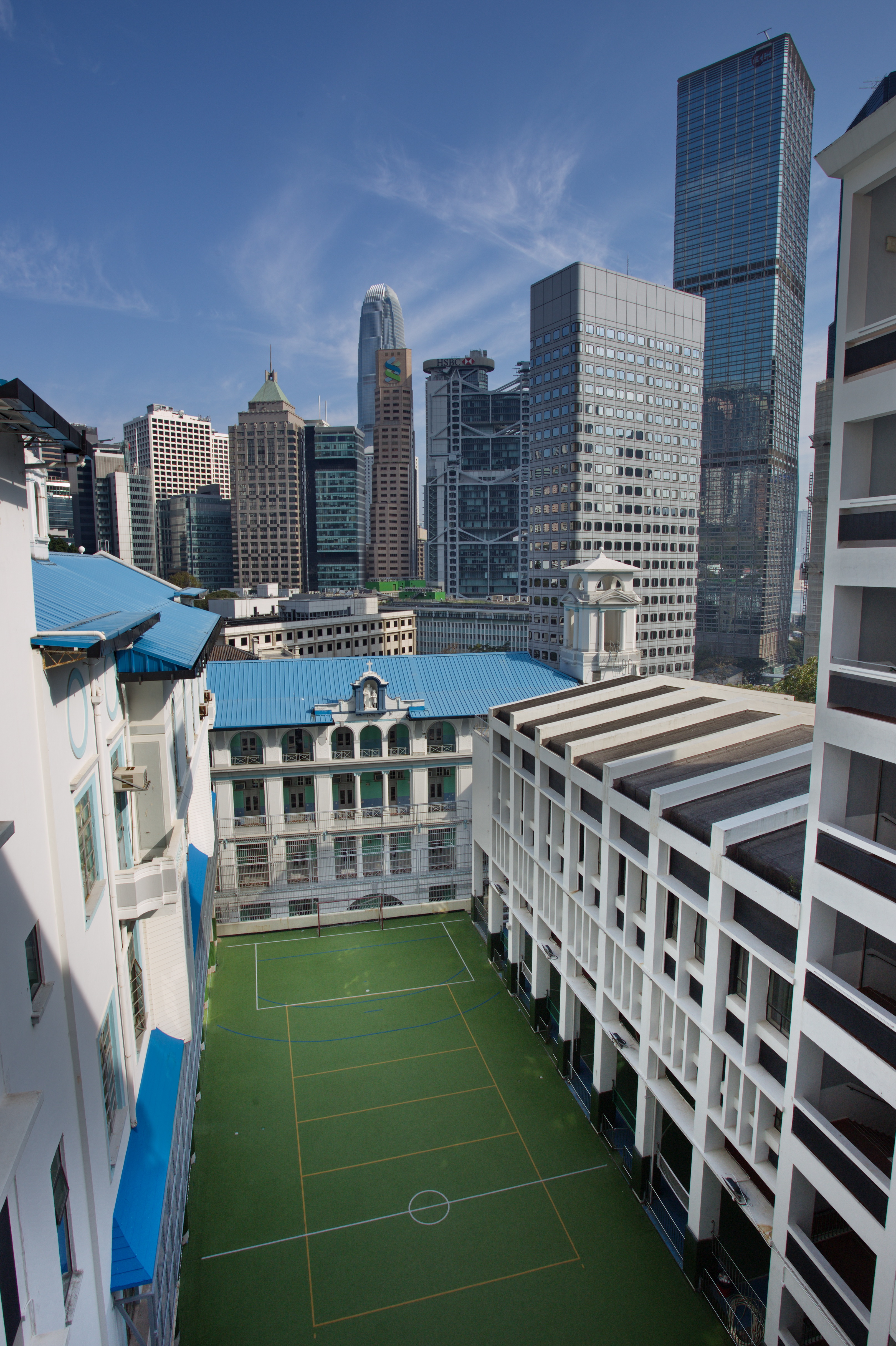 Atrium of St. Joseph's College, Hong Kong